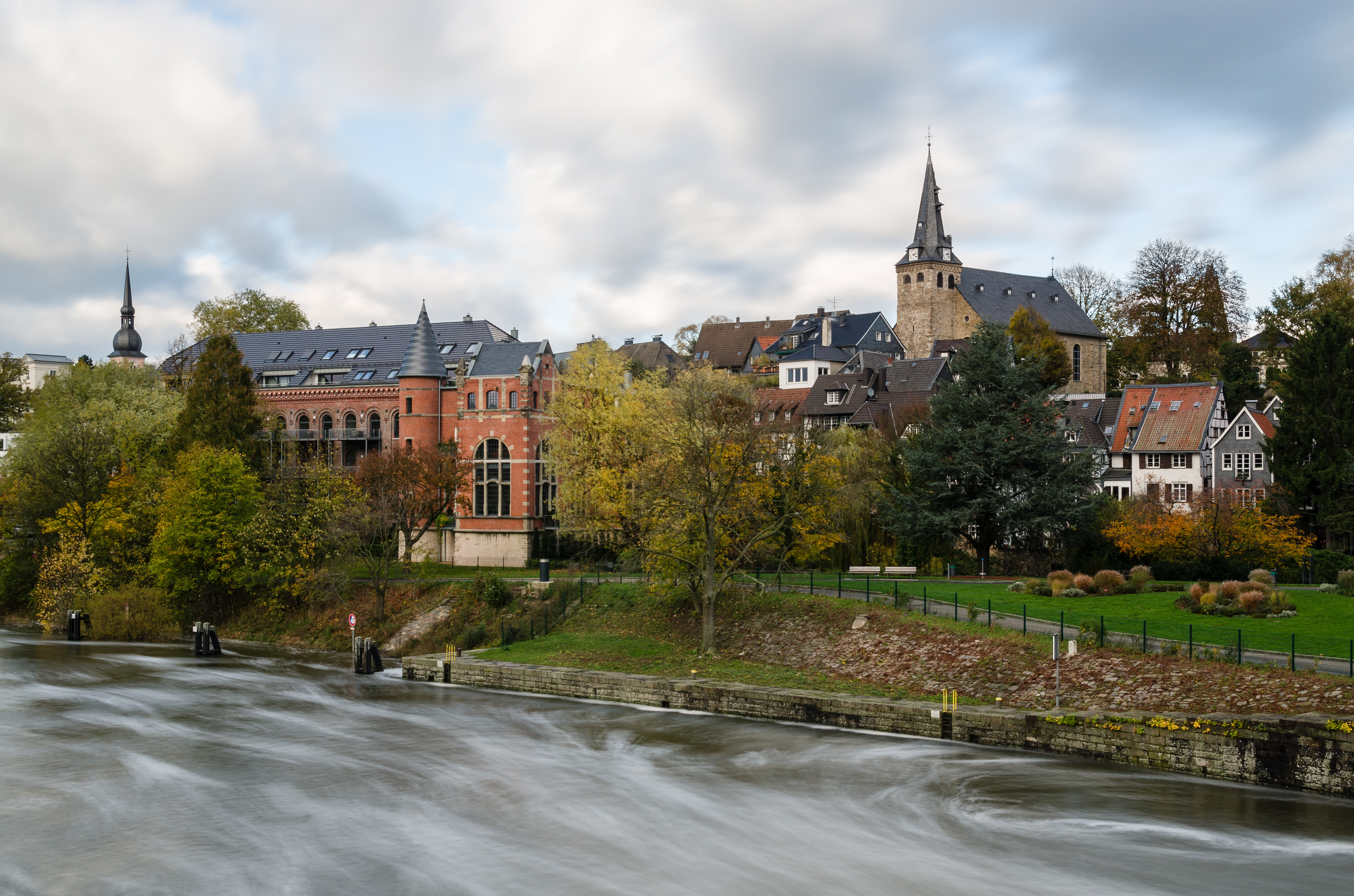 View from the Ruhr Bridge ("Ruhrbrücke") on the historic center of Essen Kettwig with rebuilt waterside palace ("Uferpalais")